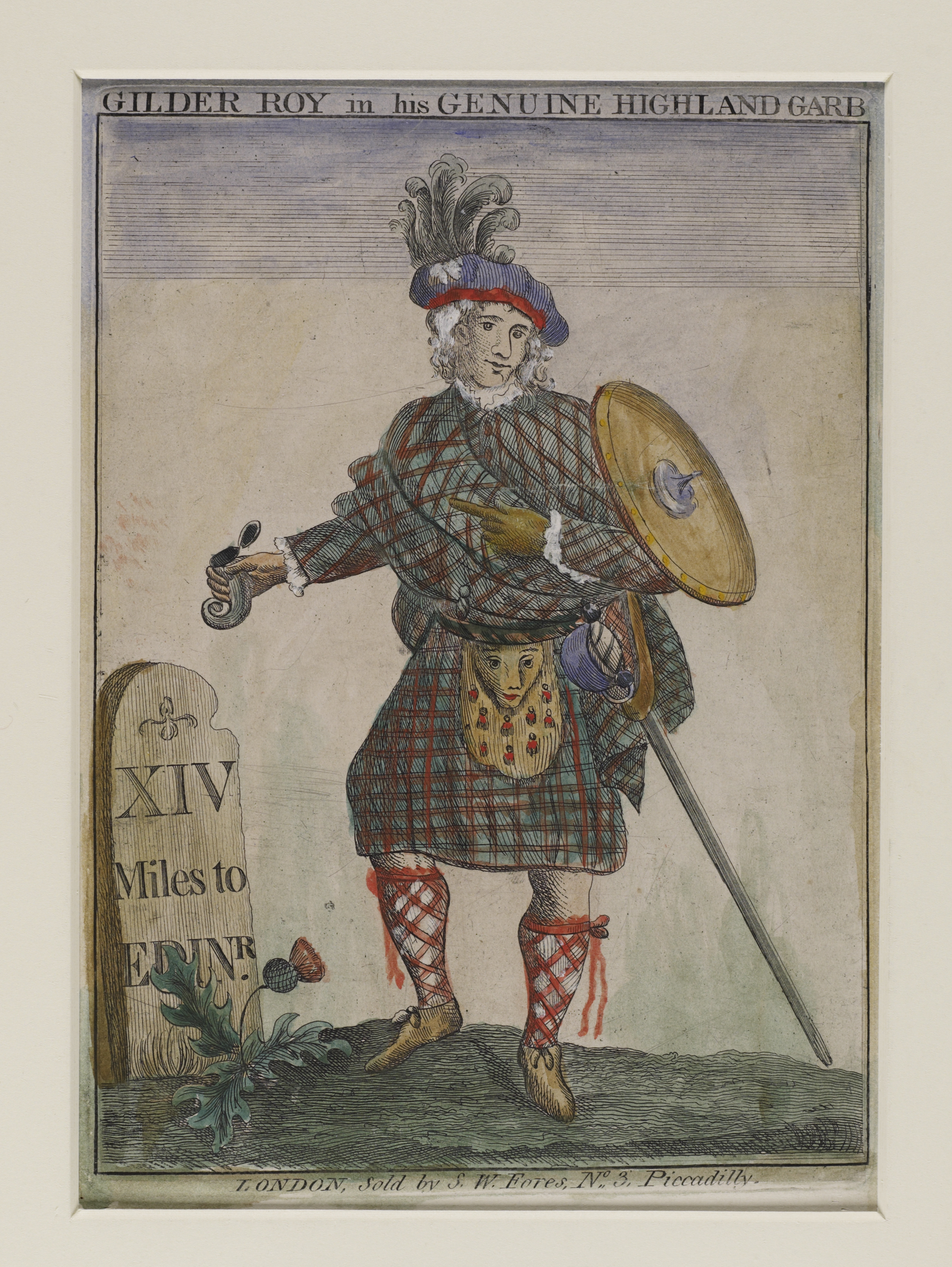 6 1/2x9 1/4 Fl. St. 1/2R coloured Portrait of Gilder Roy in complete Highland outfit- kilt, sporran as well as sword and shield in fron of a gravestone and thirstle "XIV Miles to EDIN.R" with text below pictures "London, sold by S. Forres, No. 3 Piccadilly"